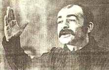 Low resolution image of Golesorkhi delivering one of his famous speeches in front of a military court that would soon condemn him to death. Taken from Maziar's Behrooz (Prof. of Middle East history at San Francisco State University) "The red rose: A biogrpahy of Khosrow Golesorkhi" (article; image — A different version of this article was published in Encyclopaedia Iranica: article; hi-res pic)). First paragraph reads: "Khosrow Golesorkhi (1943-1974), poet, journalist, and revolutionary figure whose defiant stand during his televised show trial, and subsequent execution by firing squad in 1974 enshrined his place in the cultural and political history of modern Iran."